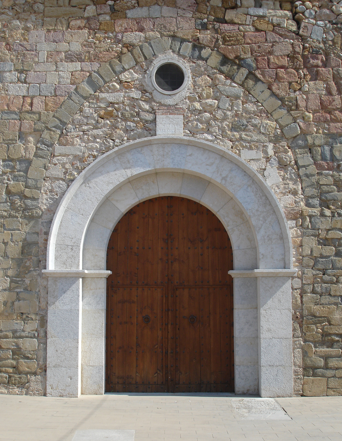 Castle of Albons, Xth Century (Catalonia, Spain)